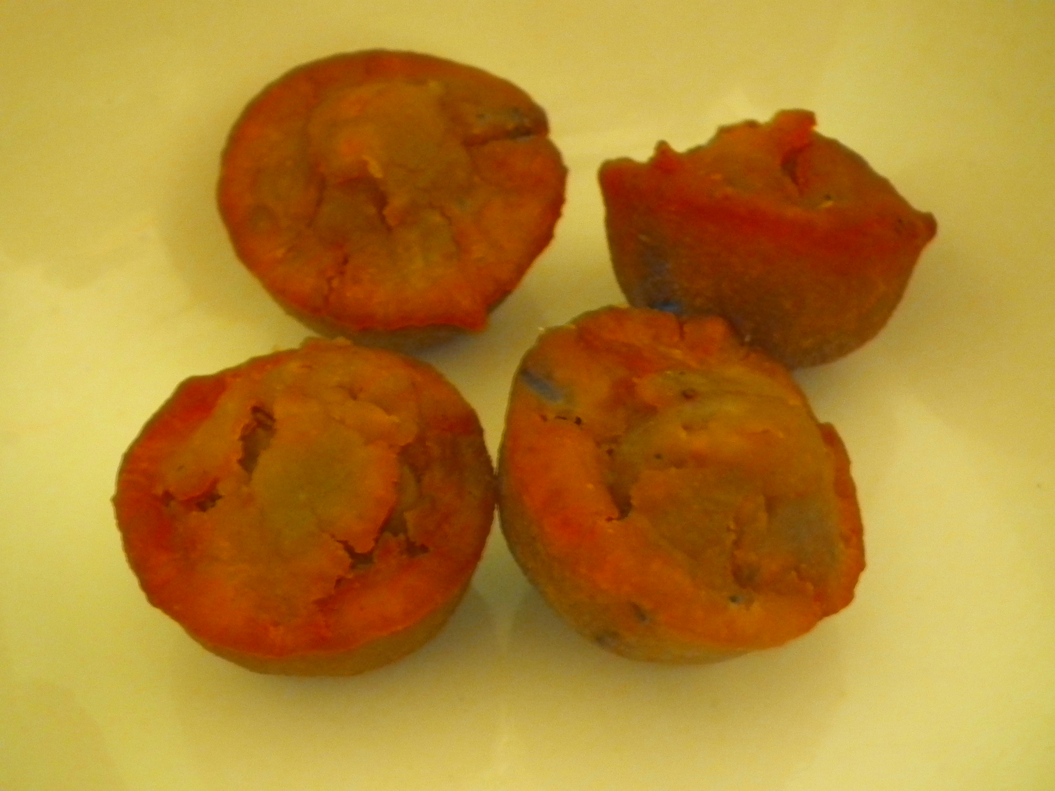 Unni appam is a small round sweet rice cake made from rice, Jaggery, plantain, Ghee and other ingredients. It is a popular snack in Kerala and is a main offering to Lord Ganapathi. In Malayalam, unni means small and 'appam means rice cake.